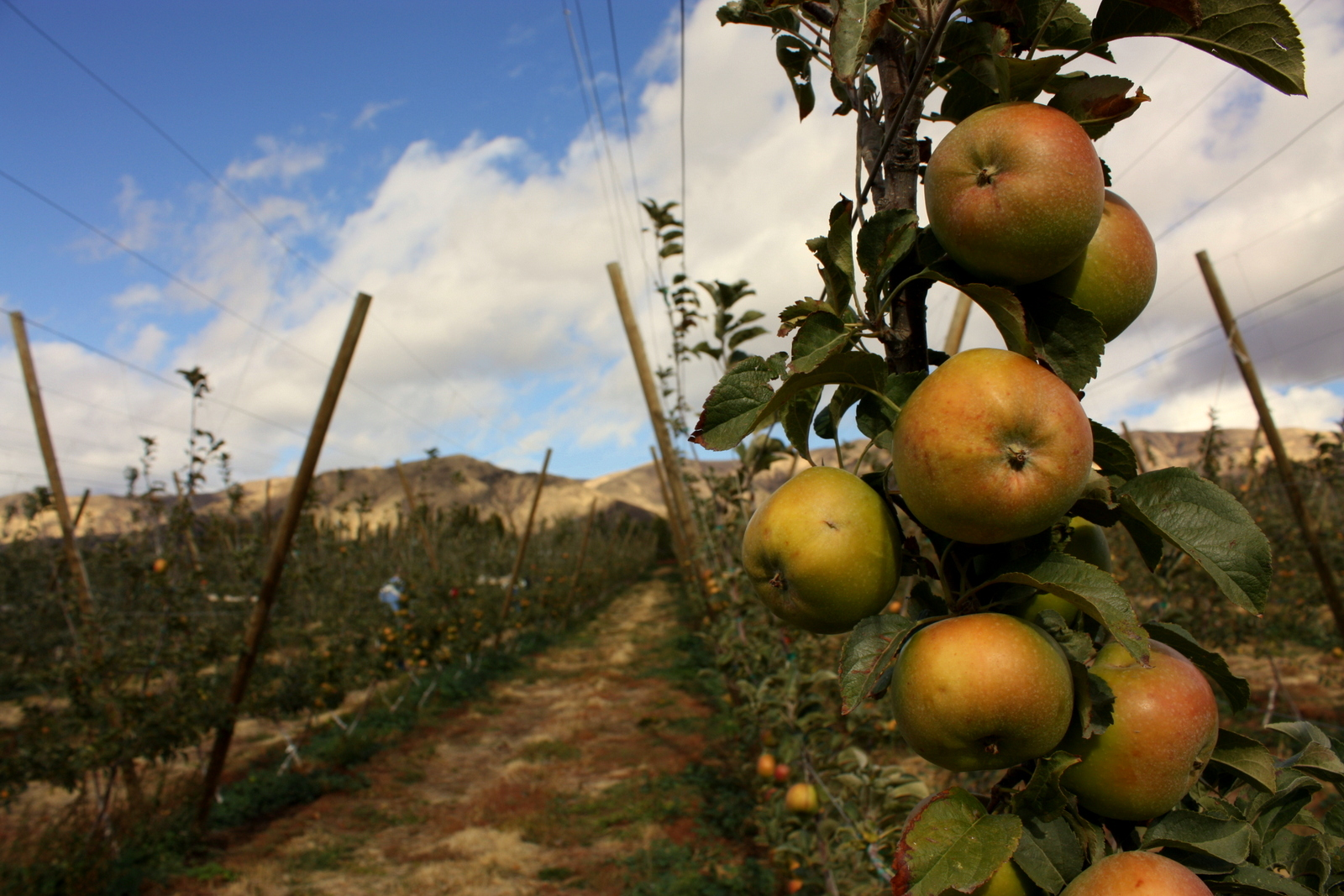 And these are Newtown Pippins.